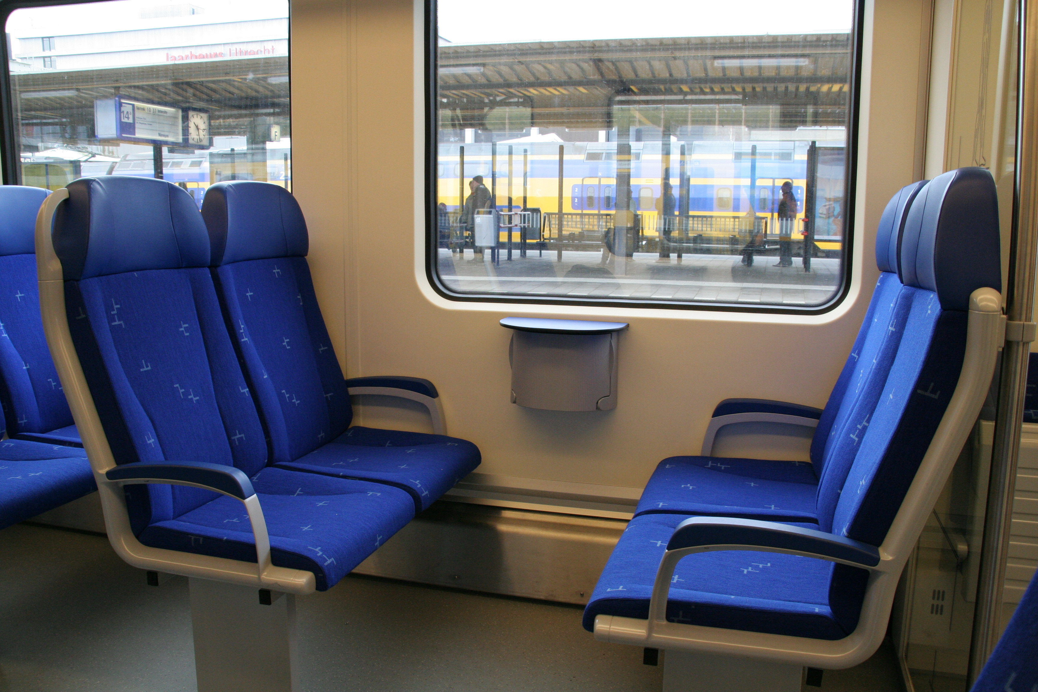 Interior 2nd class SLT